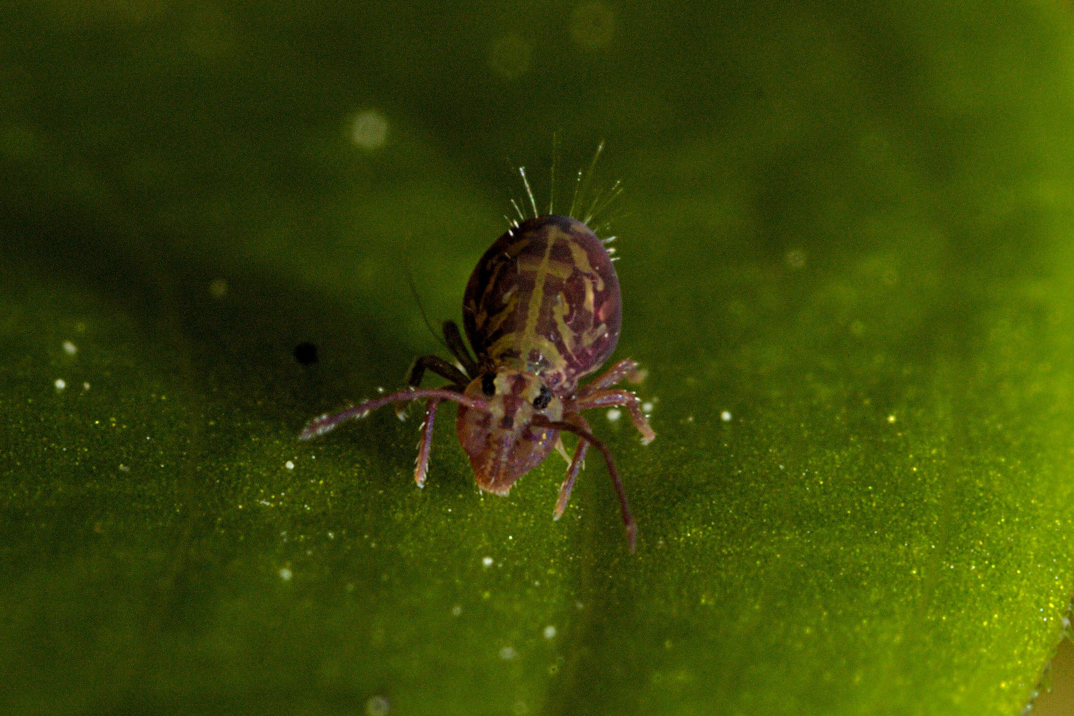 Spretthaler (Collembola)